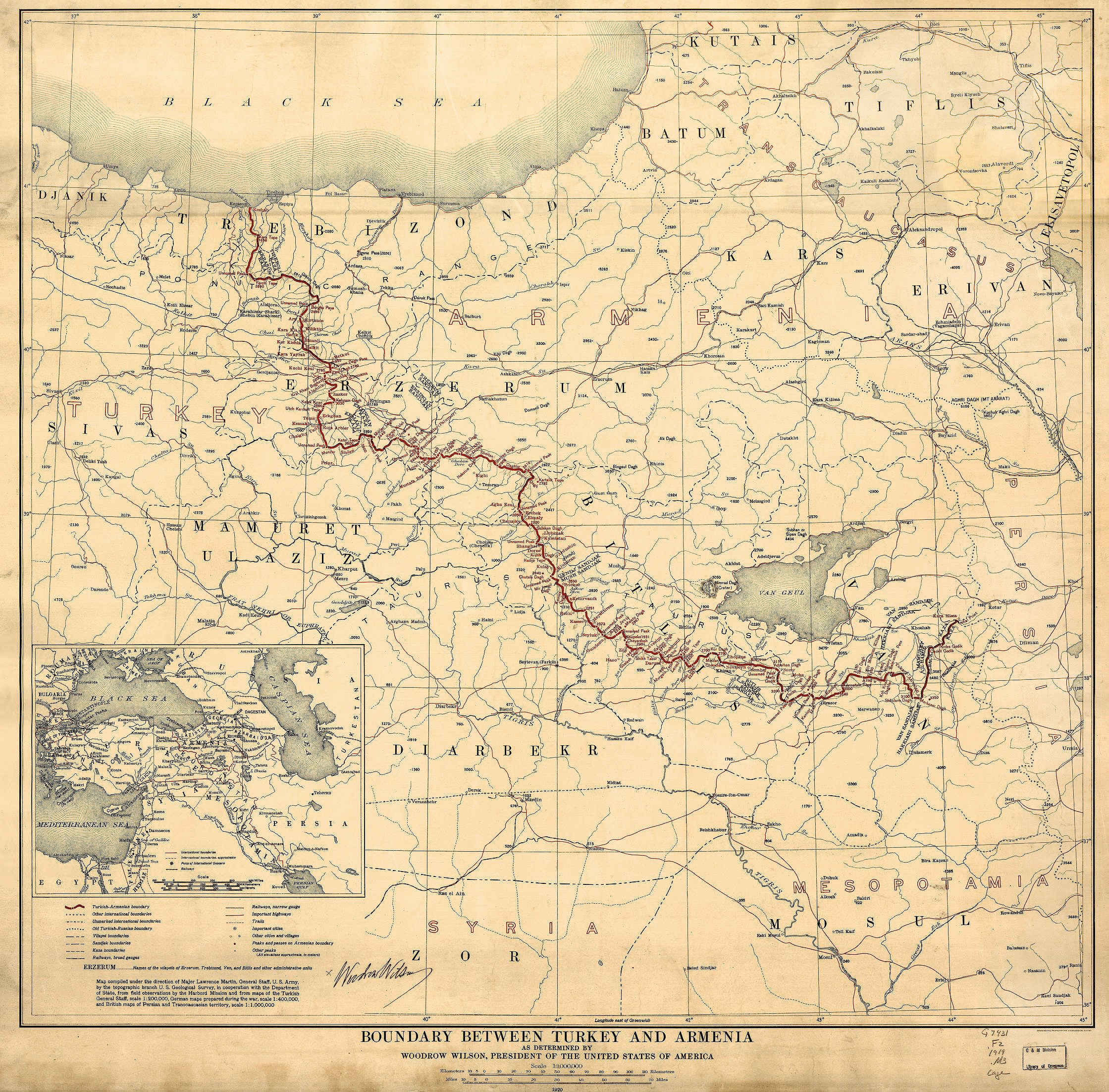 Title Boundary between Turkey and Armenia : as determined by Woodrow Wilson, president of the United States of America / Description Scale 1:1,000,000. Relief shown by spot heights. From the President Woodrow Wilson papers. Available also through the Library of Congress Web site as a raster image. Includes location map. LC copy 2 signed by Woodrow Wilson. DLC 1 map : col. ; 70 x 74 cm.